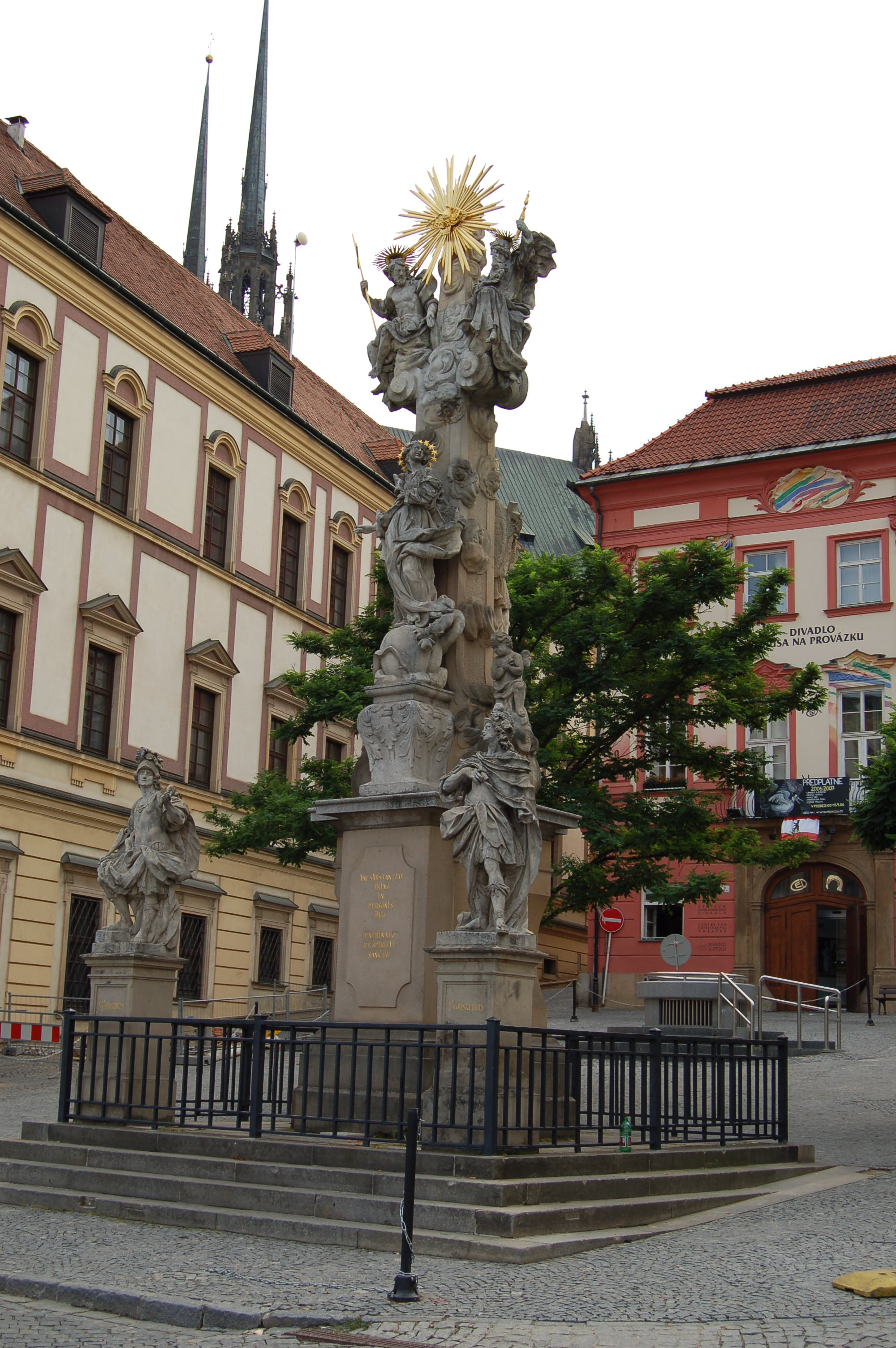 Buildings in the center of the Czech city Brno.